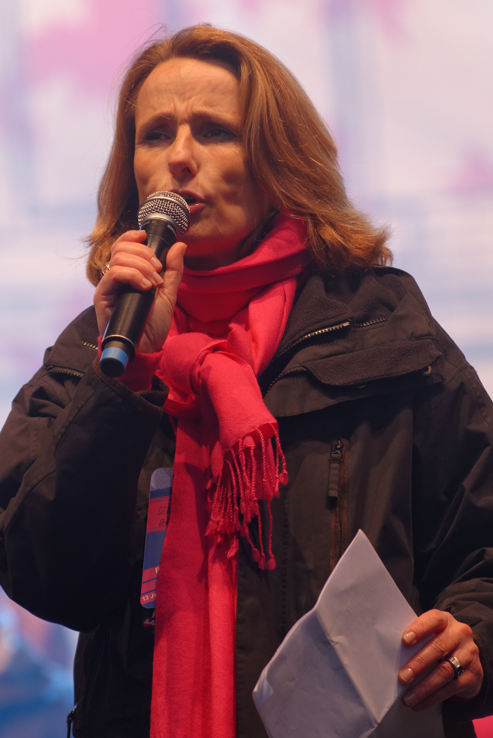 Béatrice Bourges on the podium during the demonstration against same-sex marriage in Paris on 13 January 2013 (“Manif pour tous”).